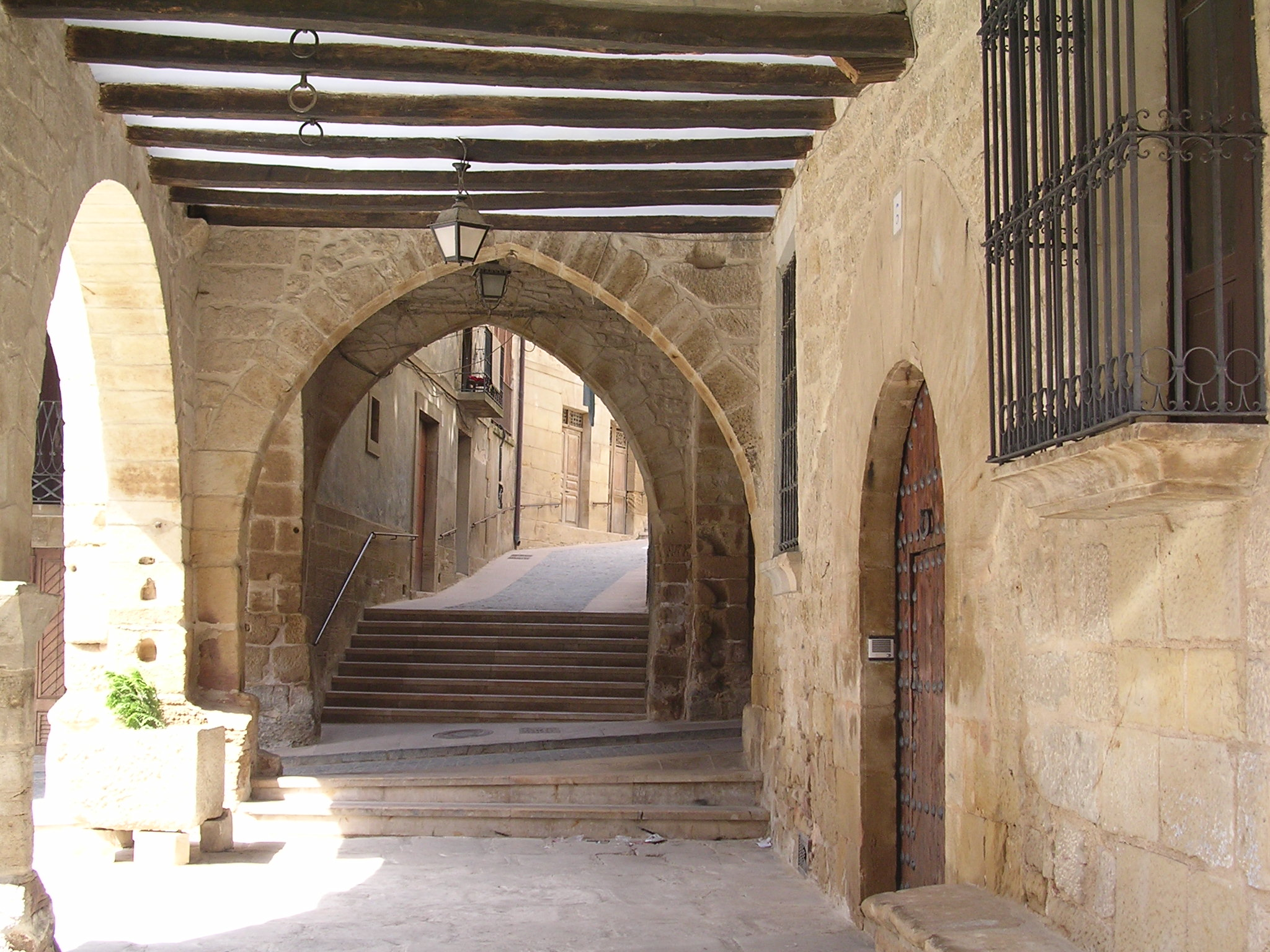 A street in Calaceite, Teruel province (Aragon, Spain)